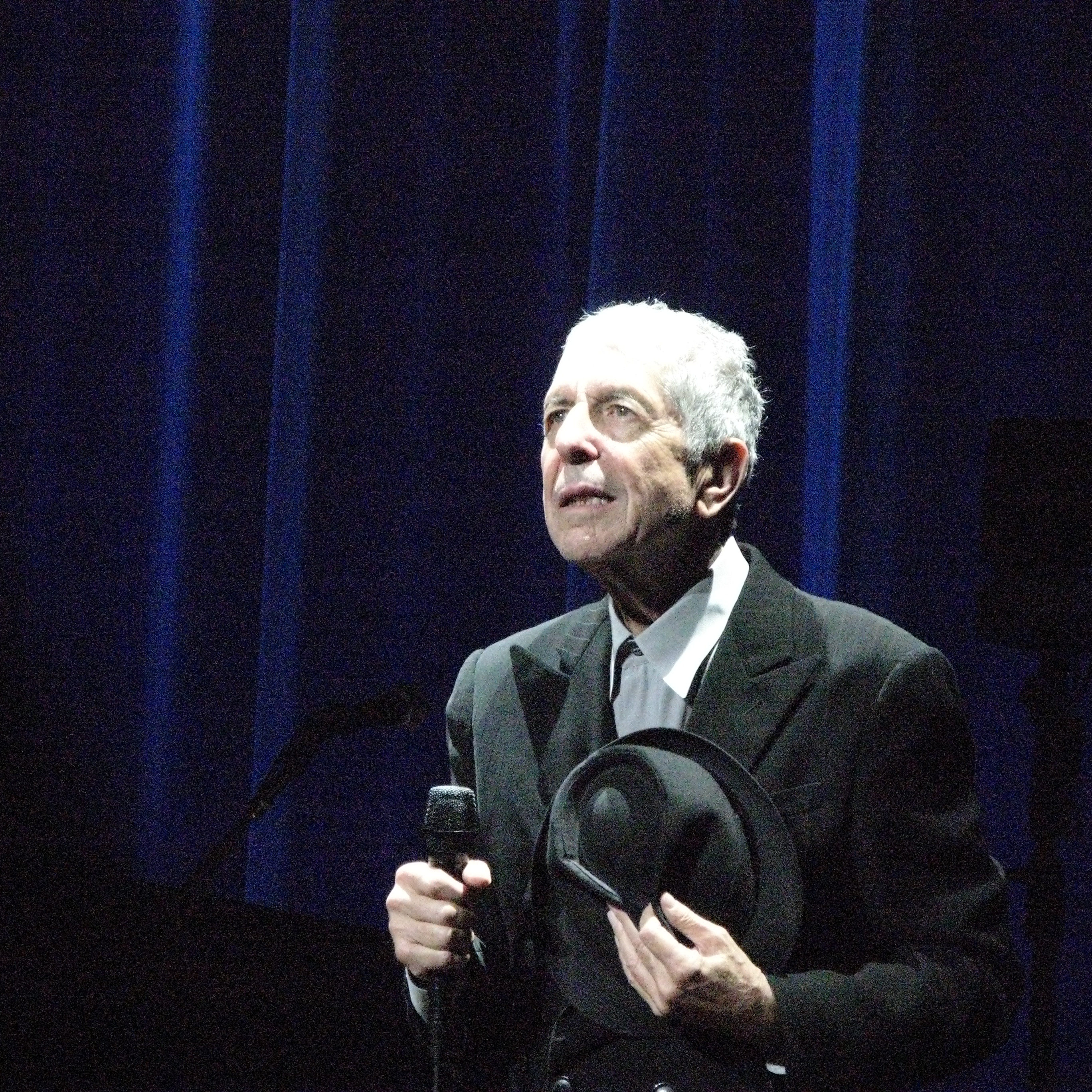 Leonard Cohen